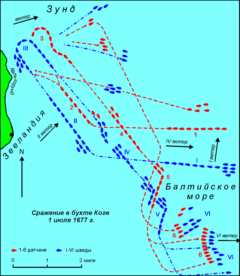 Diagram of Battle in Koge Bay